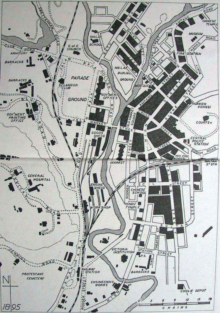 A map of colonial Kuala Lumpur by WT Woods, dates 1889